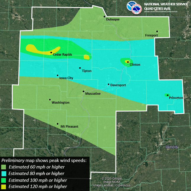 This map was generated on August 19, 2020 with wind speeds experienced by different areas within the Quad Cities Iowa/Illinois region from the August 2020 Midwest derecho.